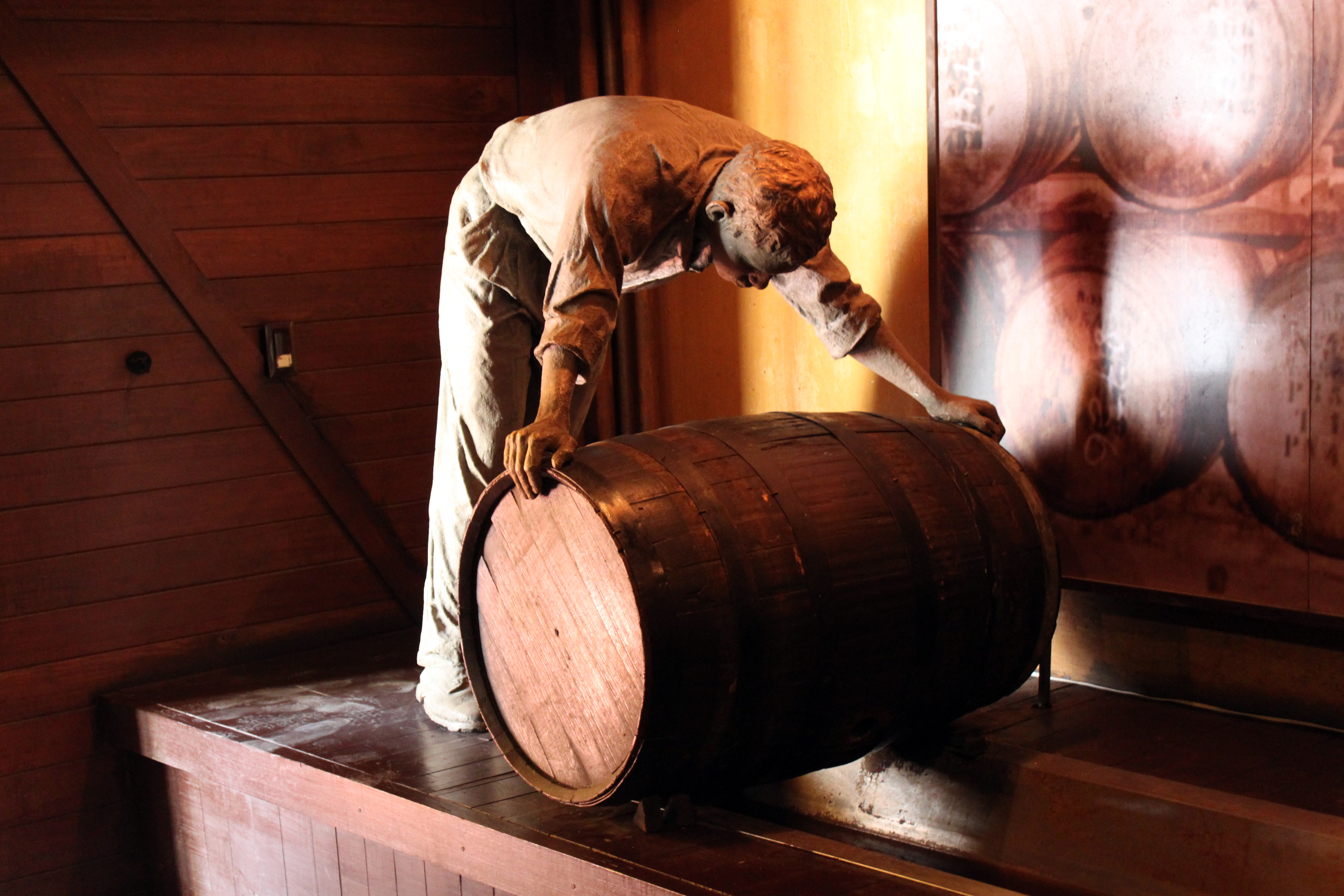 Rum Museum, Havana, Cuba